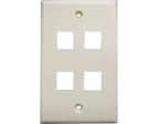 White 4 Port Keystone Jack